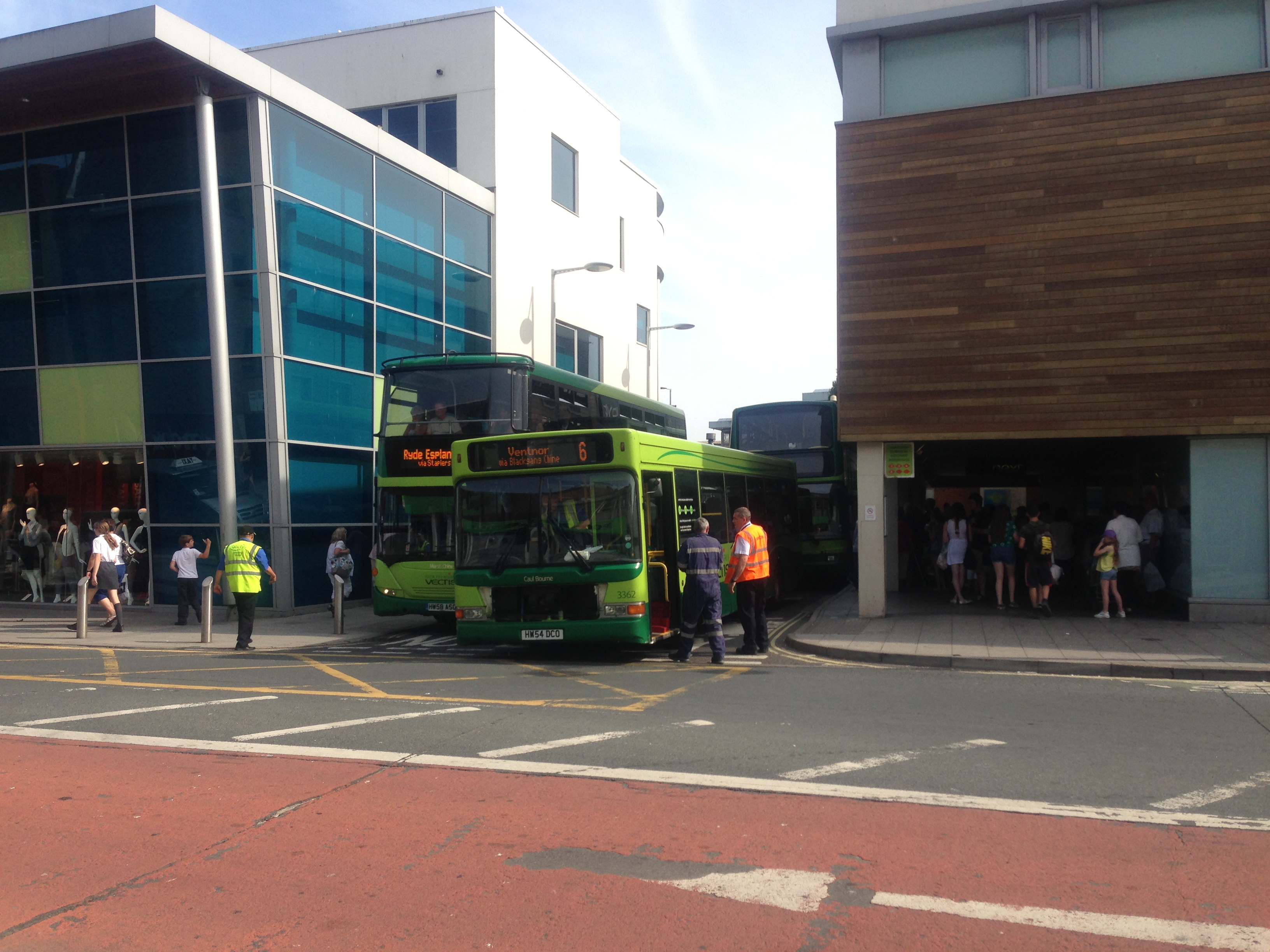 Southern Vectis 3362 Caul Bourne (HW54 DCO), a Dennis Dart SLF/Plaxton Pointer, at the exit of Newport, Isle of Wight bus station, broken down on route 6. The bus was just about to pull away when it broke down, making it difficult for all other buses to leave the bus station properly, so Southern Vectis staff had to direct traffic.